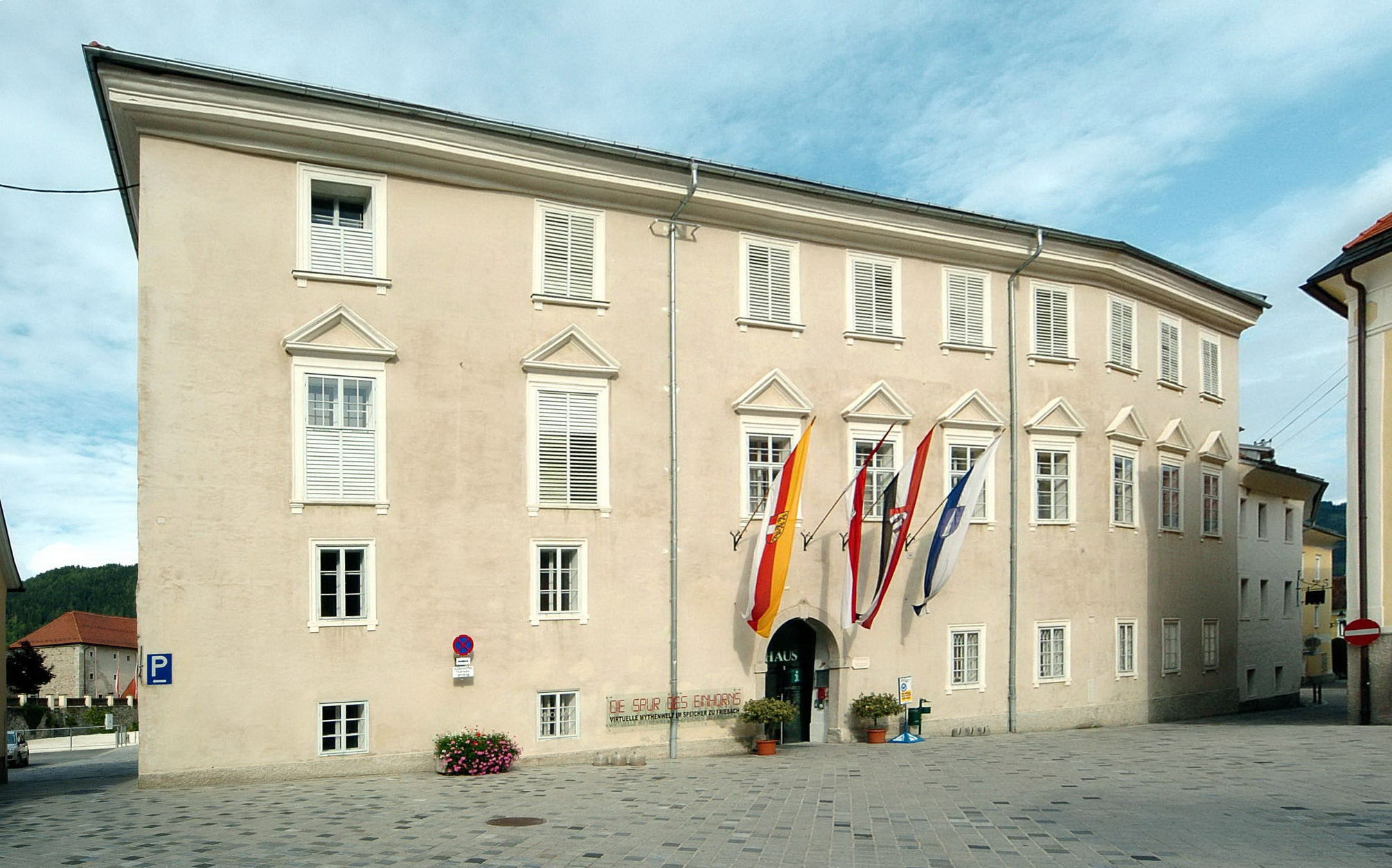 Duke`s court and town hall on Fürstenhofplatz #3, municipality Friesach, district Sankt Veit an der Glan, Carinthia, Austria, EU